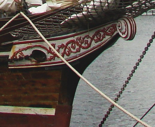 Billet head of the German three-masted schooner Amphitrite (built in England in 1877).